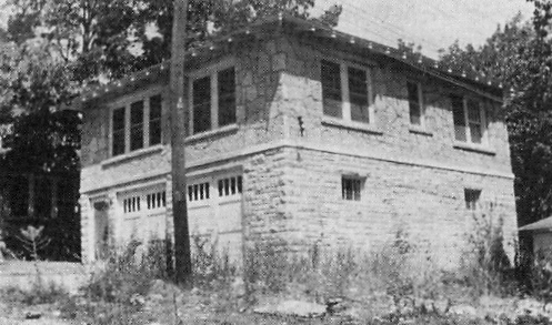 snapshot of Barrow gangster hideout, Joplin MO, April 1933